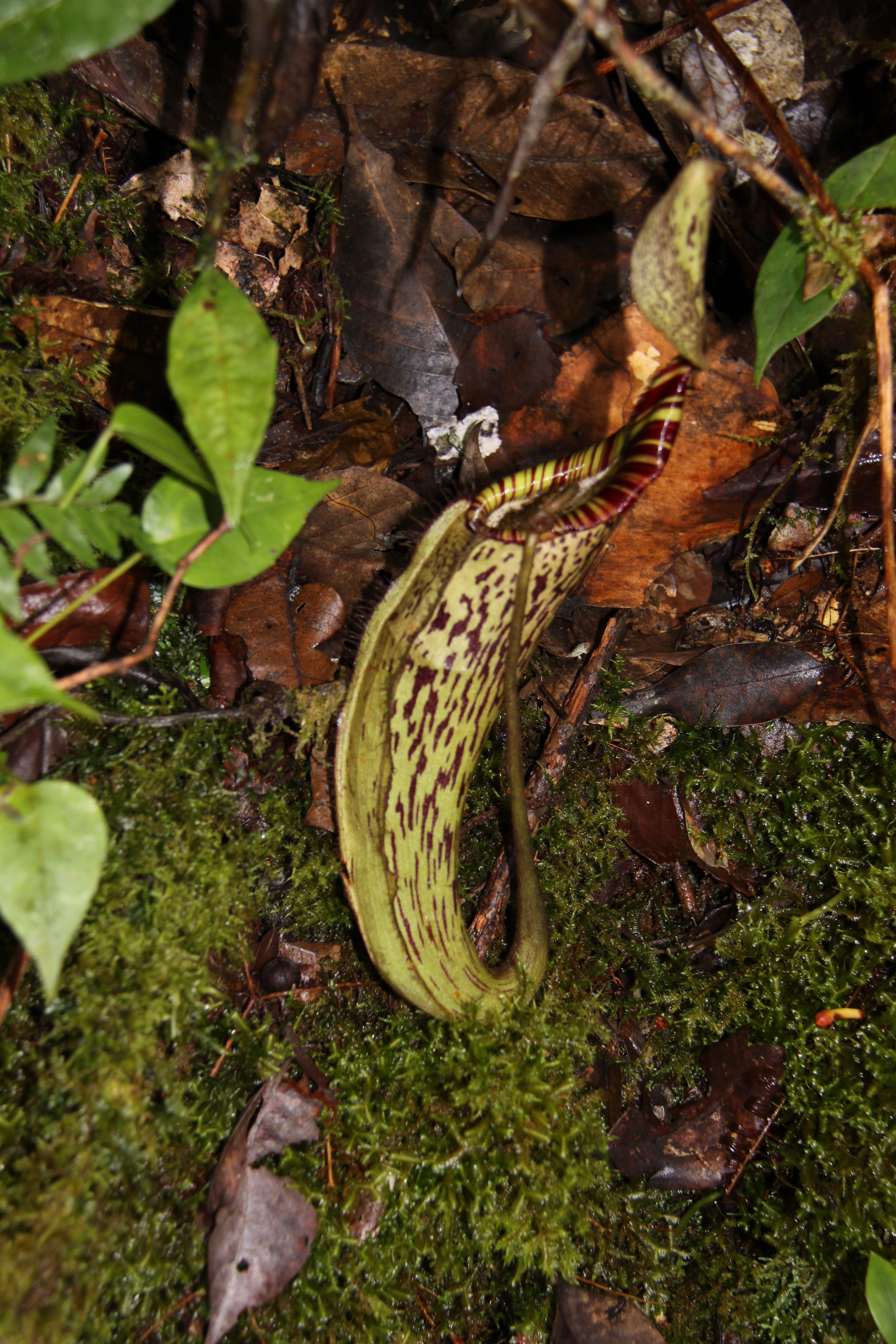 Nepenthes spectabilis. Indonesia, N-Sumatra, Aceh: Mt. Leuser NP (E-slope of Mt. Kemiri), ca. 1400-1500m asl., 15.04.2009